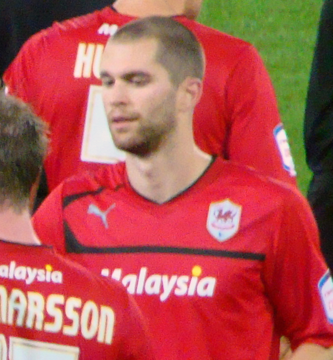 Cropped image of English player Matthew Connolly playing for Cardiff City, October 2012.